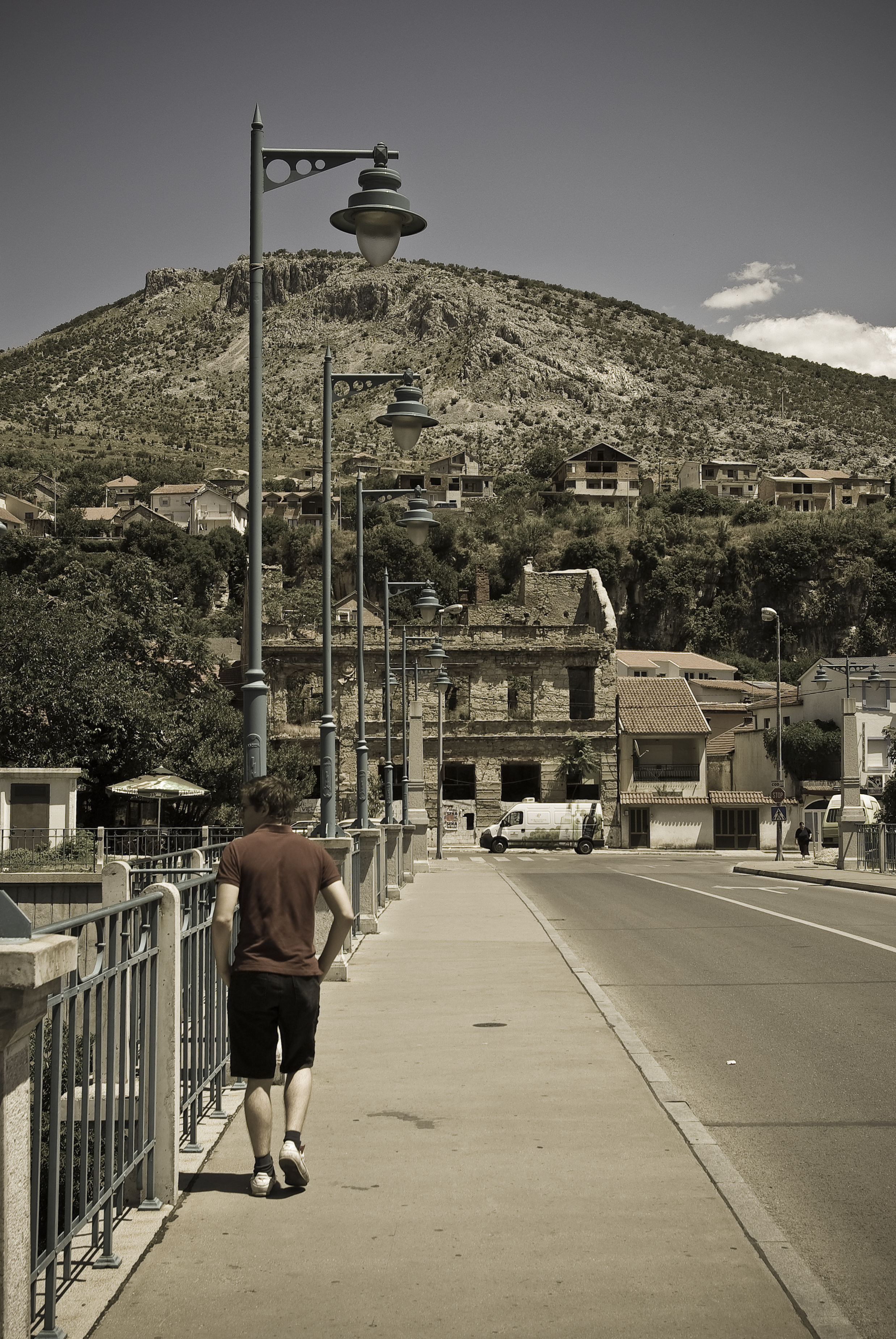 Photograph published in the album "Mostar".